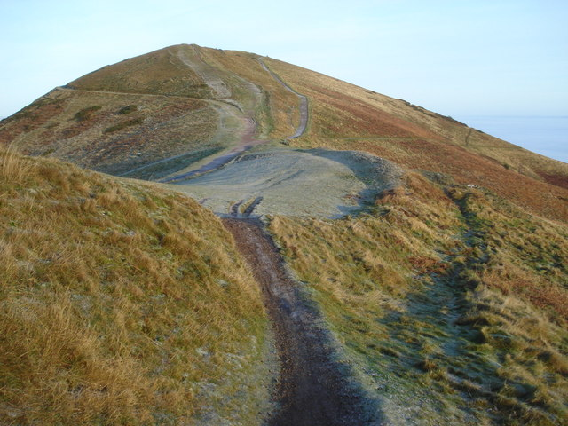 Saddle south of the Worcestershire Beacon From Summer Hill looking northwards to the Worcestershire Beacon. The Shire Ditch forms a shallow trough just to the right of the ridge all the way to the top and to its right the tarmac access lane climbs up the flank of the Beacon.